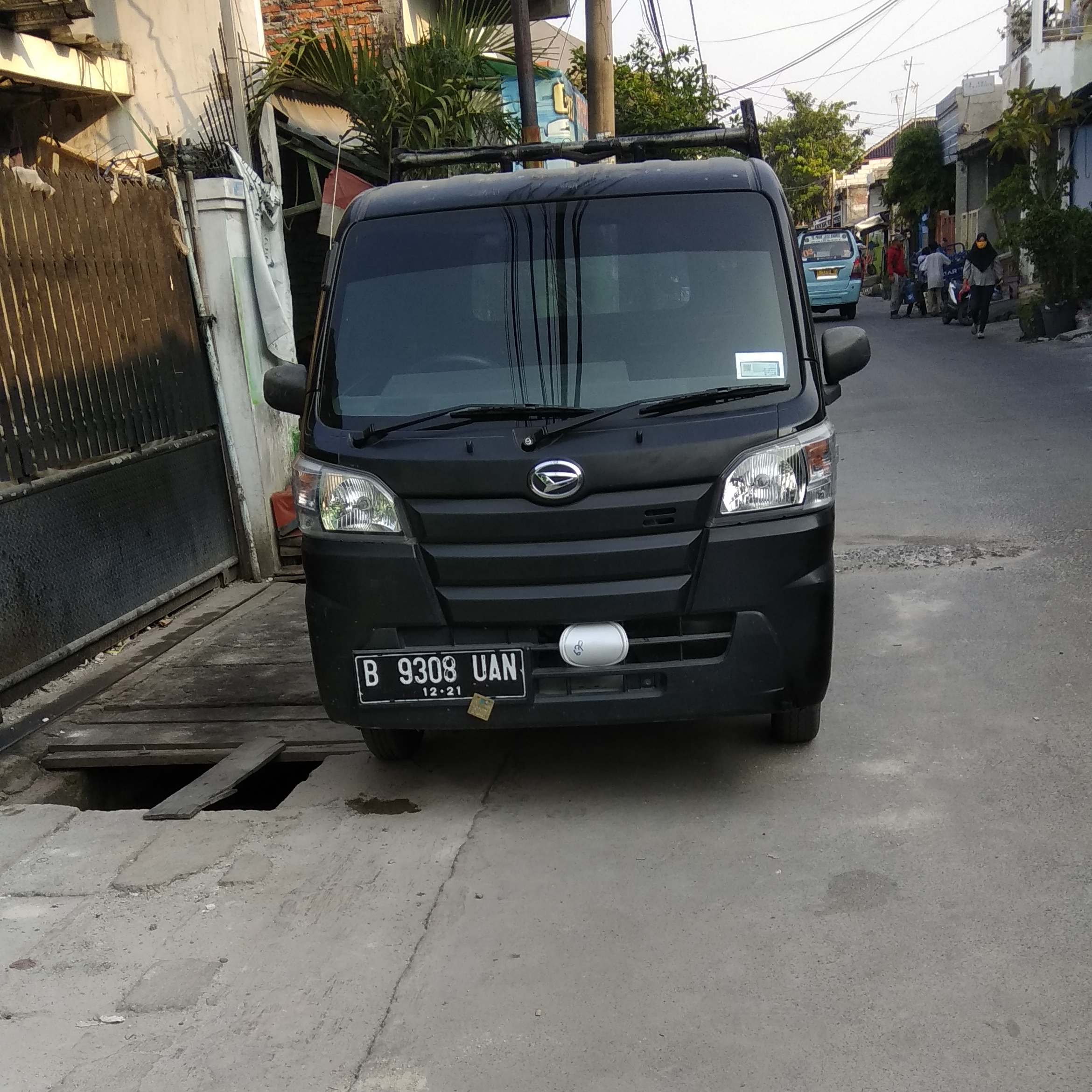 A rare 1.0 L version of Indonesian assembled 10th generation Daihatsu Hijet kei truck, less than 2000 units ever produced.